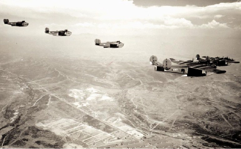 Six U.S. Navy Consolidated PB2Y-5 Coronado flying boats of patrol bomber squadron VPB-4 in flight in July 1945. VPB-4 at that time trained replacement crews and made shuttle flights between NAS North Island, California (USA), and NAS Kaneohe Bay, Hawaii.